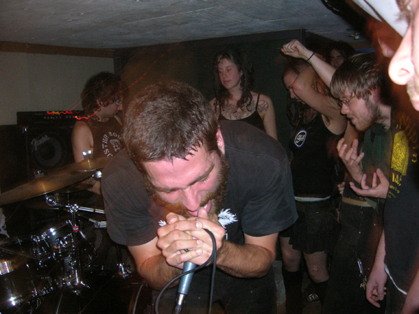 The Canadian band Iskra at the Fire-breathing Kangaroo punk house in Seattle, Washington